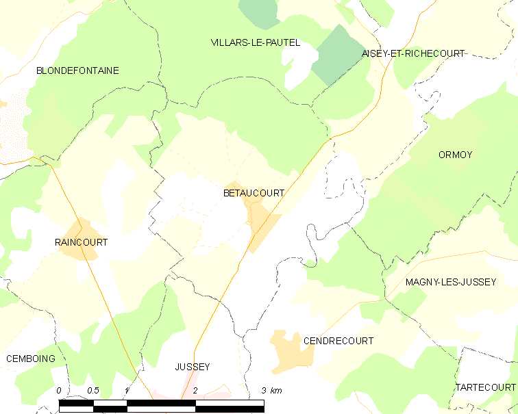 Map of French municipality